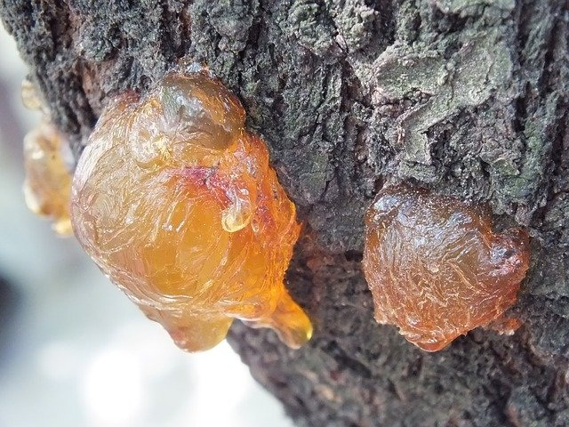 Resin coming out of tree